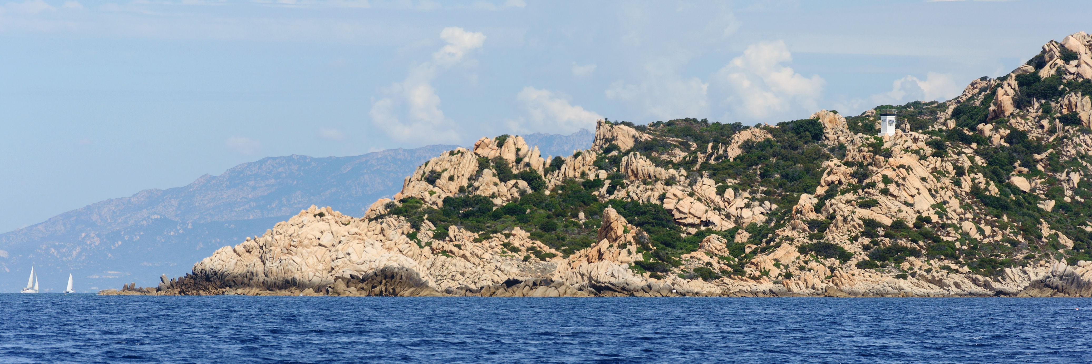 Capu di Muru and its lighthouse seen from the south, commune of Coti-Chiavari, Southern Corsica, France